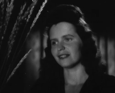 Photograph of the Finnish poet Sirkka Selja (1920–).